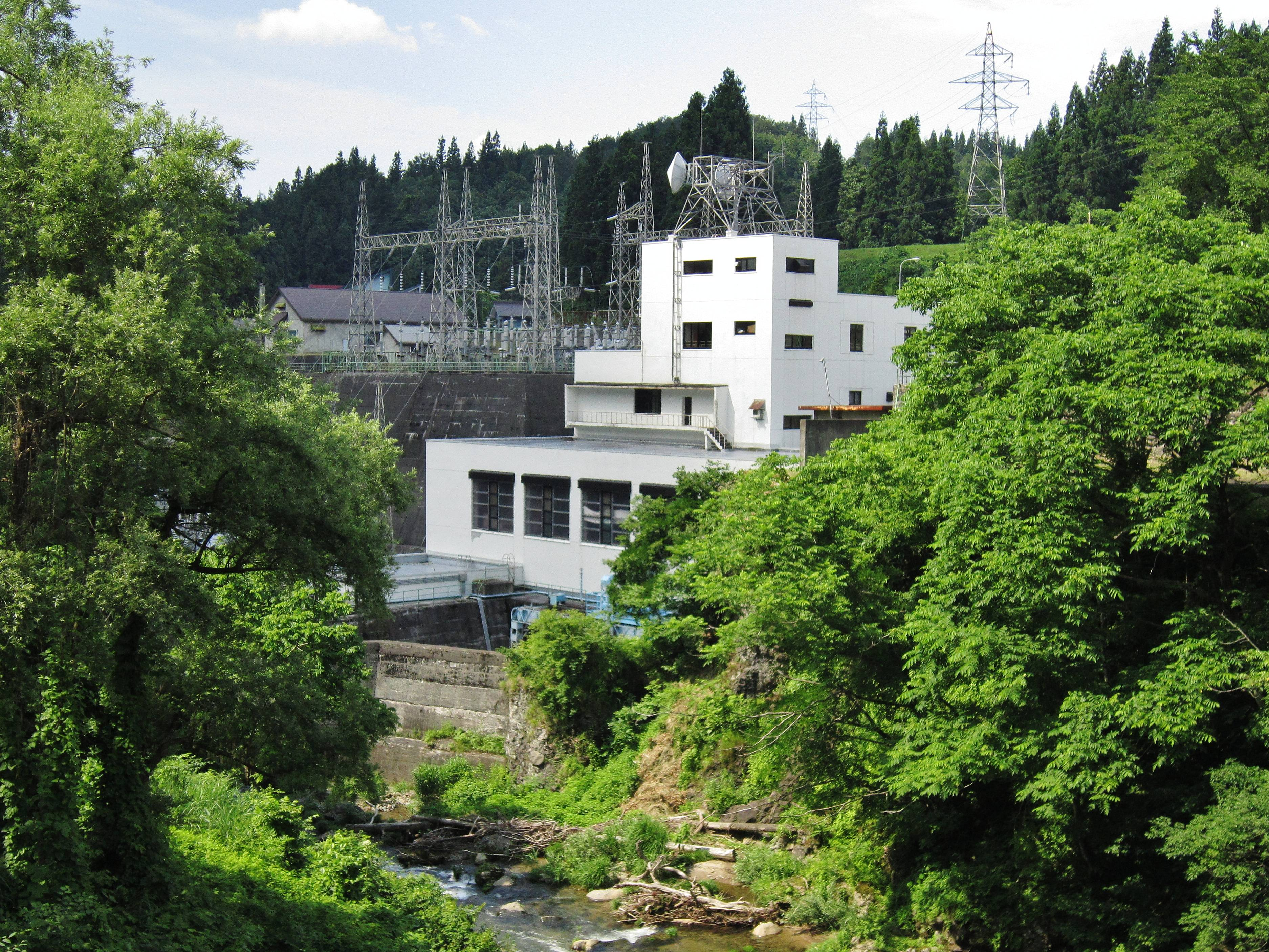 Kuromatagawa I power station.